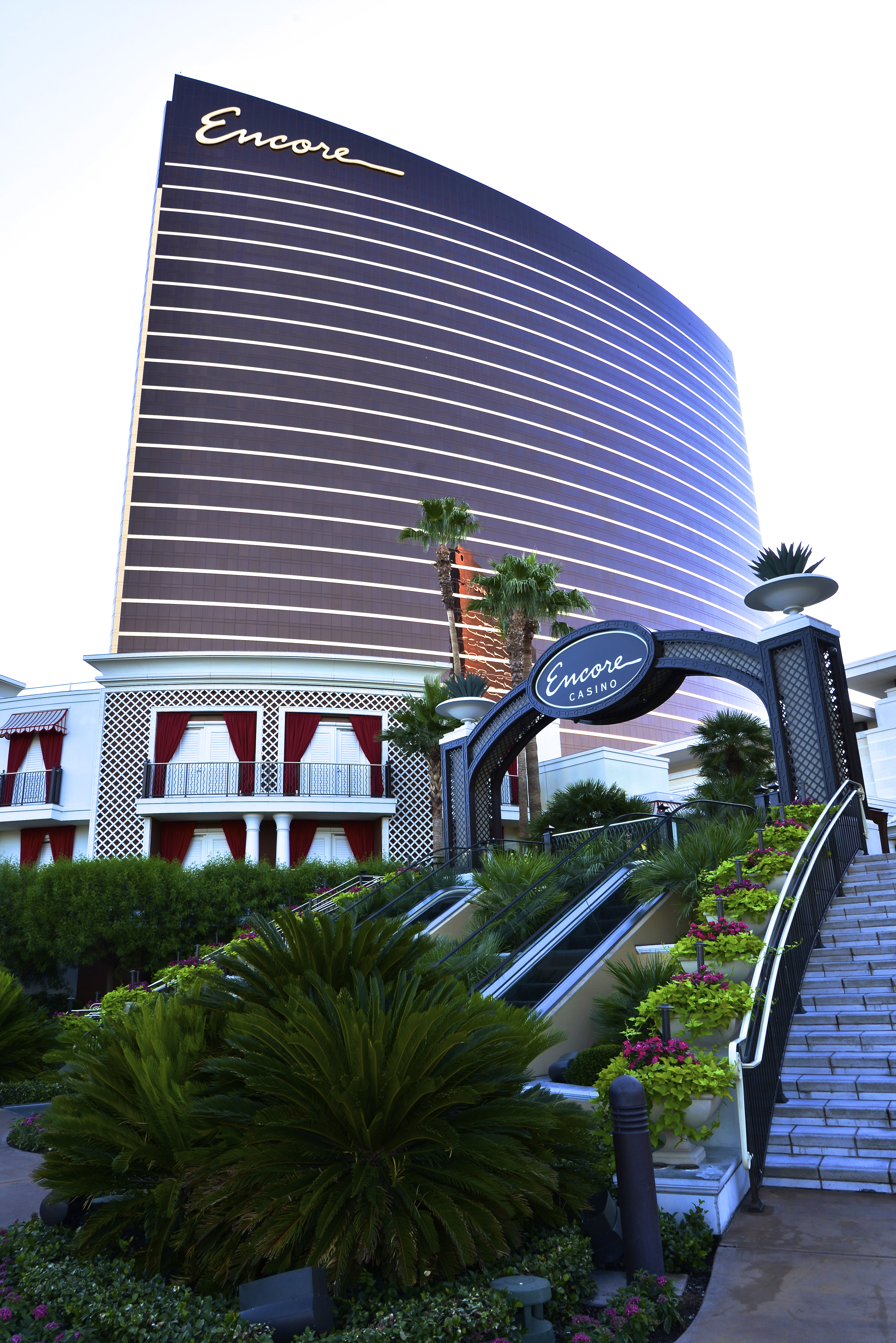 The Encore Hotel & Casino as viewed from the east sidewalk of Las Vegas Blvd